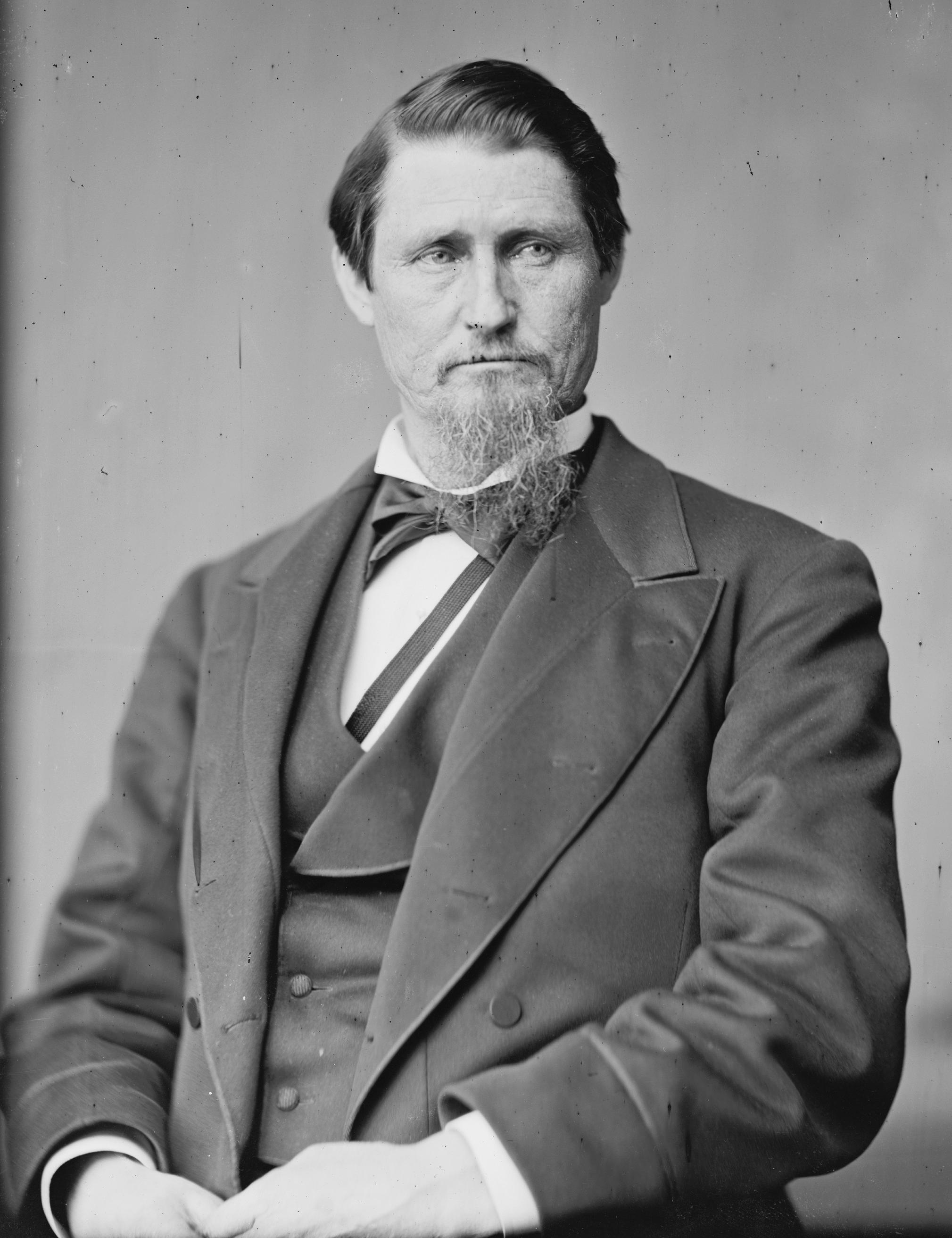 James W. Throckmorton. Library of Congress description: "Throckmorton, Hon. James Webb of Texas (Member of Secession Convention fo Texas 1861) Capt. and Major - Confederate Army Born in Tennessee Feb. 1, 1825".